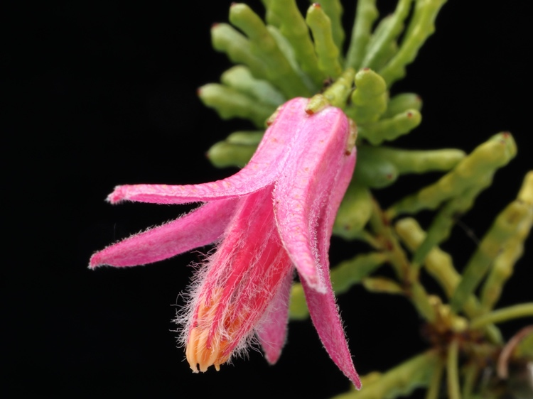 Philotheca coccinea in the Australian National Botanic Gardens, A.C.T.